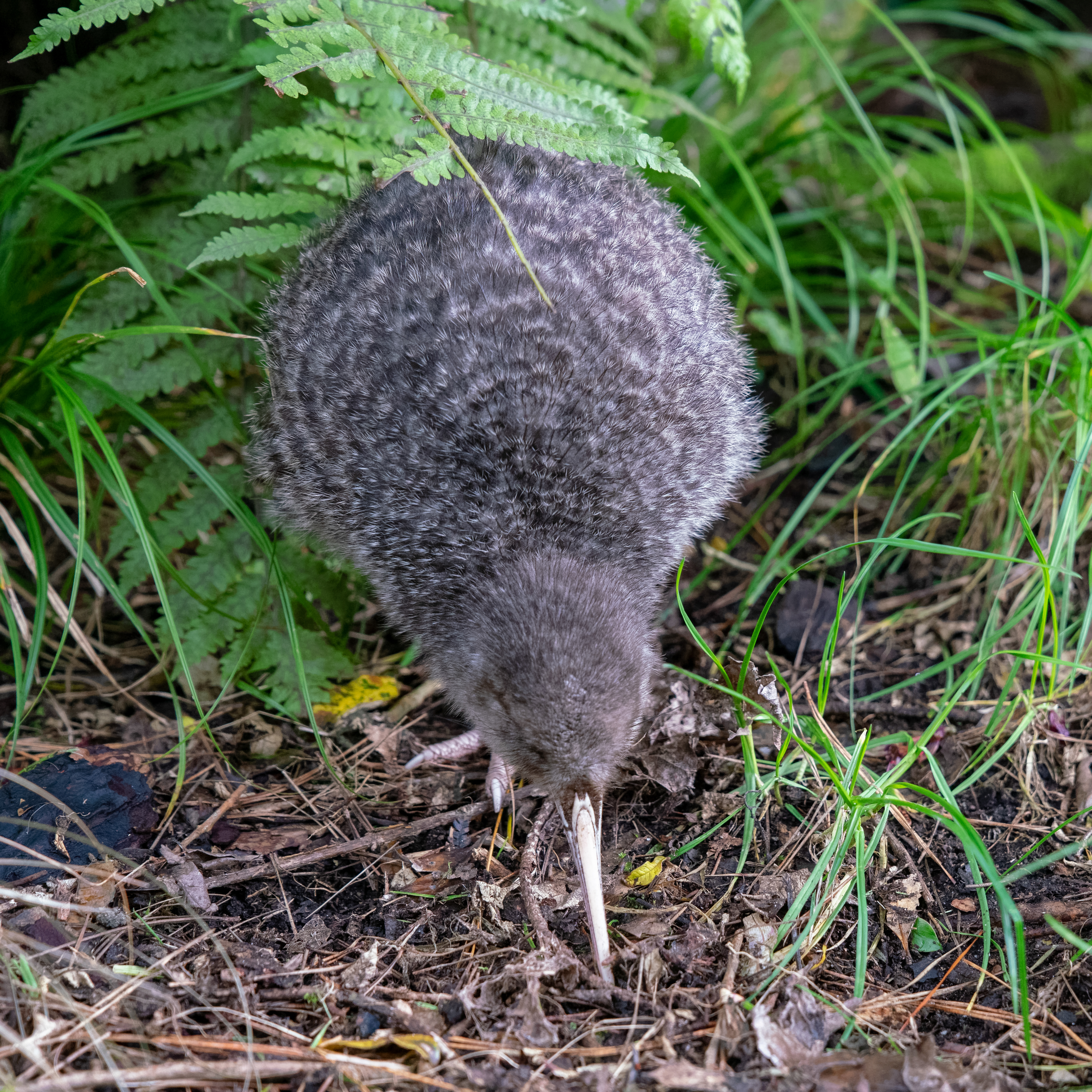 Little spotted kiwi (Apteryx owenii; kiwi pukupuku) foraging, unusually, during the day at Zealandia EcoSanctuary, Wellington, New Zealand.